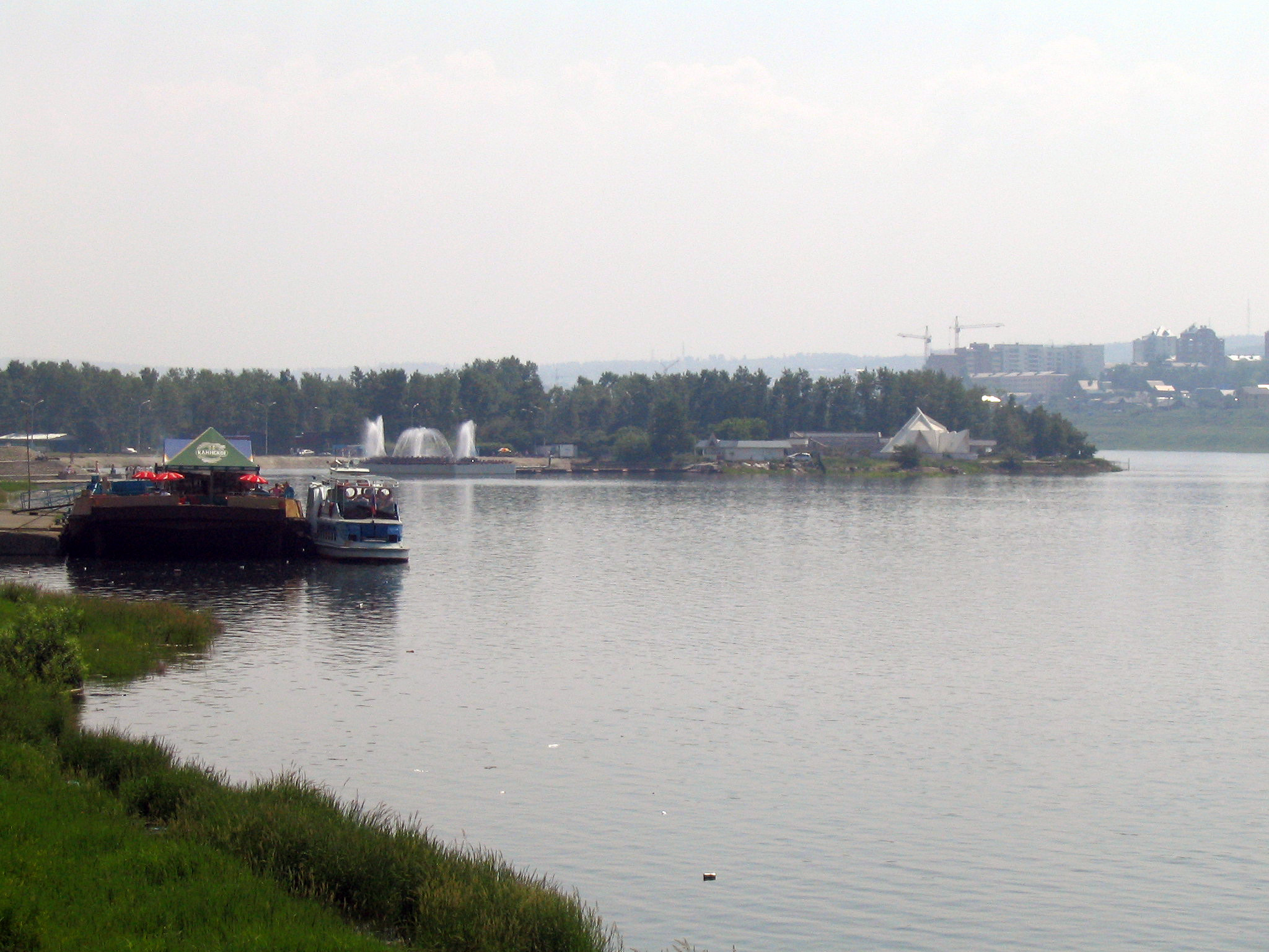 Picture of Angara River at Irkutsk, Russia. Taken by me, released into the public domain